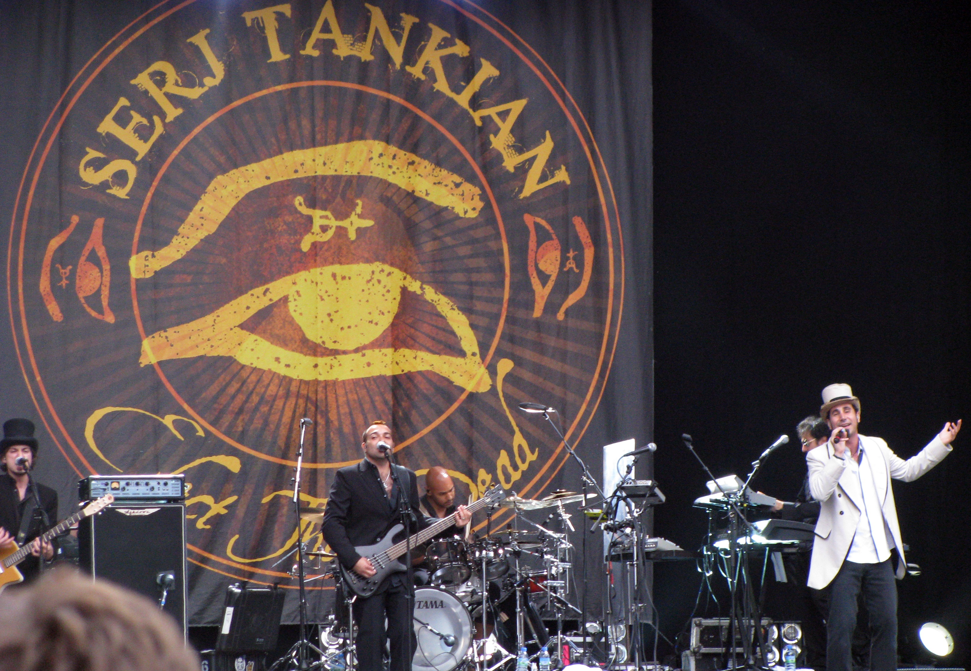 Serj Tankian performing on the 28th of August 2008.